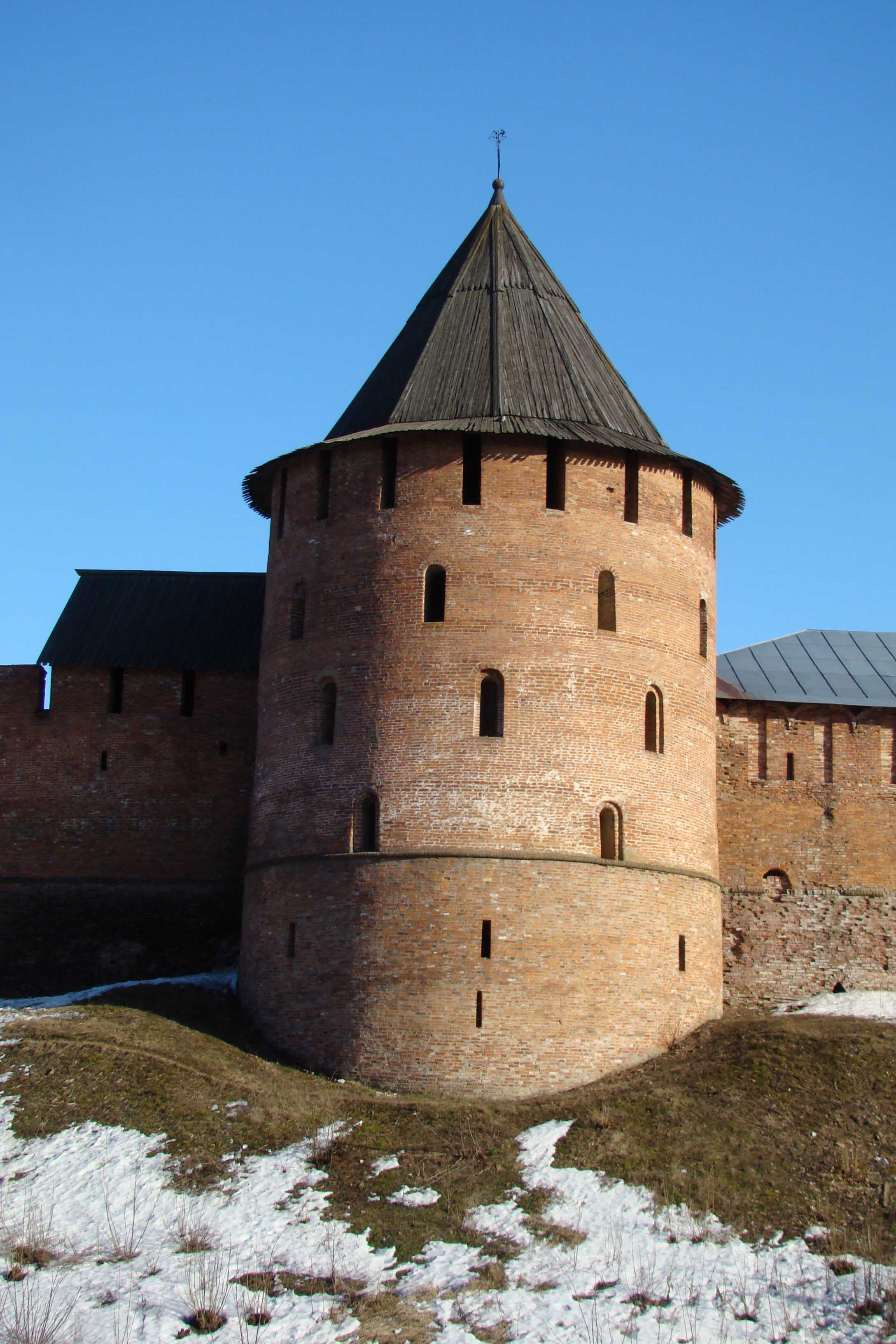 Metropolitan tower, Novgorod Detinets